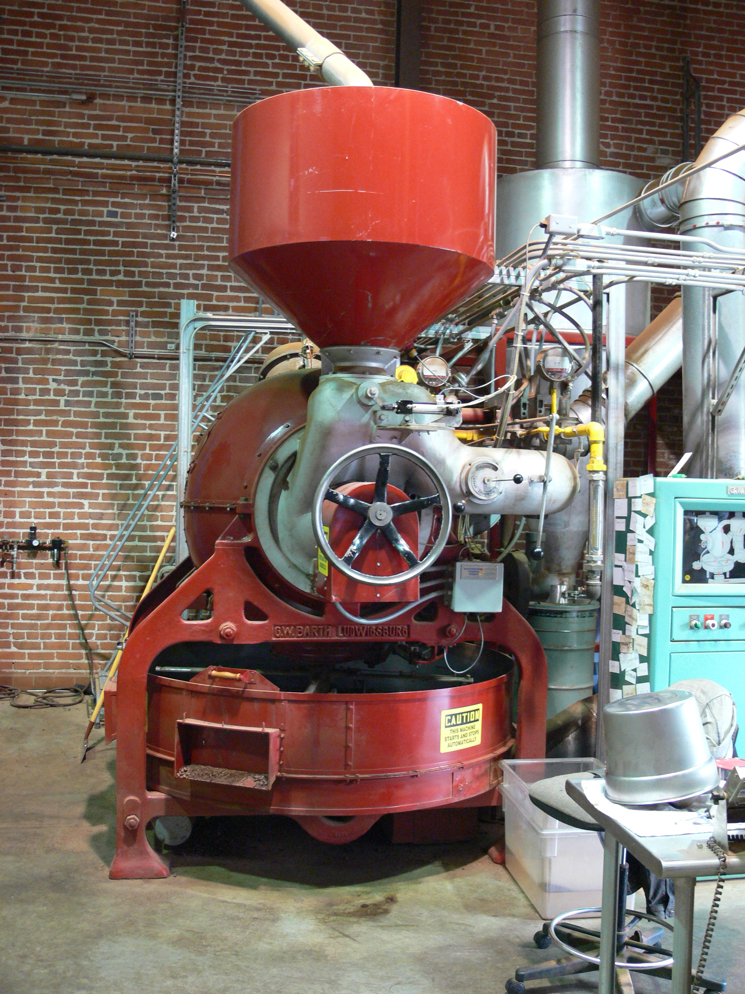 Scharffen Berger Chocolate Maker, Berkeley, California cocoa roaster "Sirocco" by G. Barth, Ludwigsburg